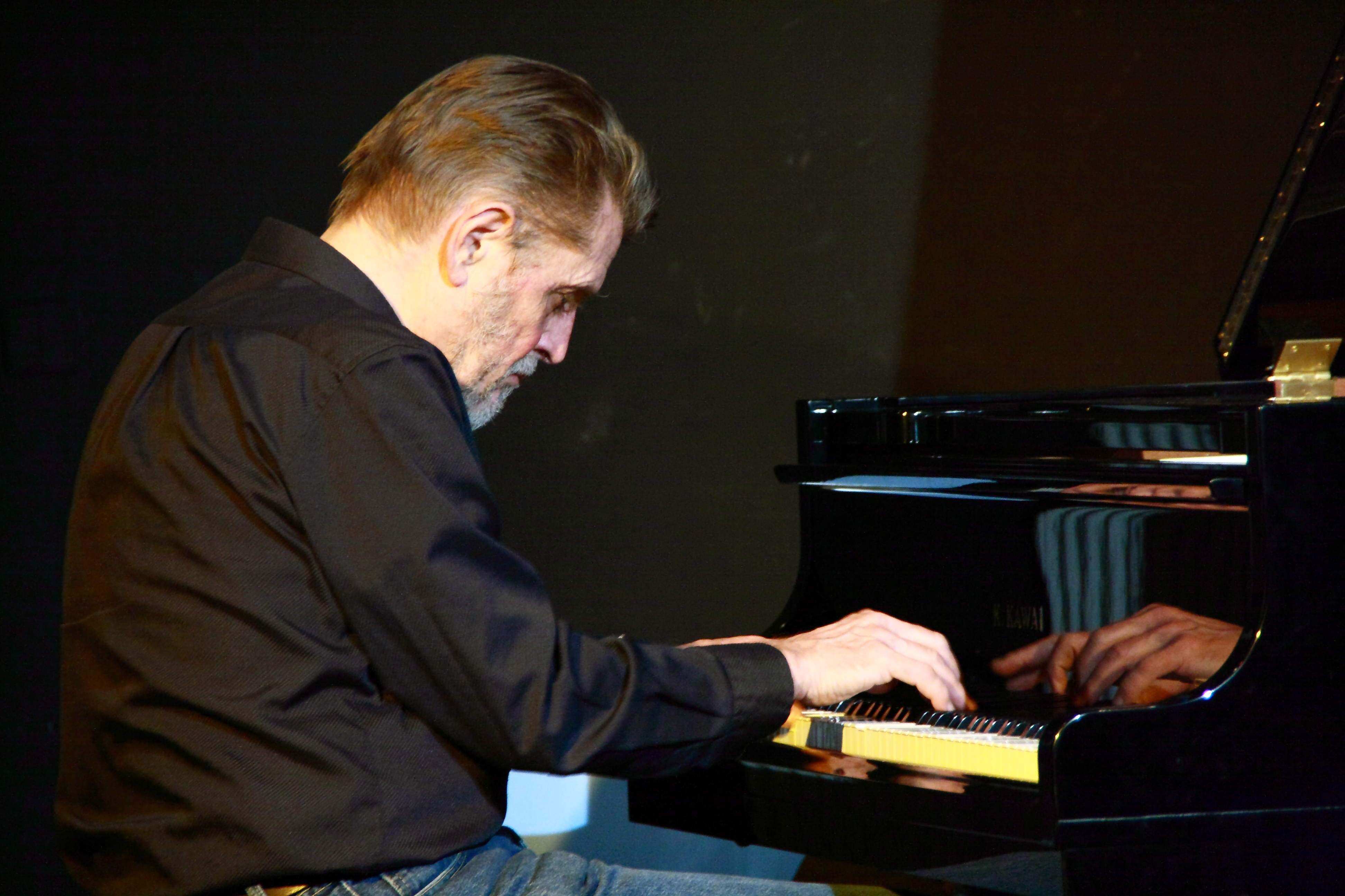 Alexander von Schlippenbach with Evan Parker and Paul Lovens at Kult, Niederstetten. Concert on the occasion of 40 years Schlippenbach-Trio and Club W71.